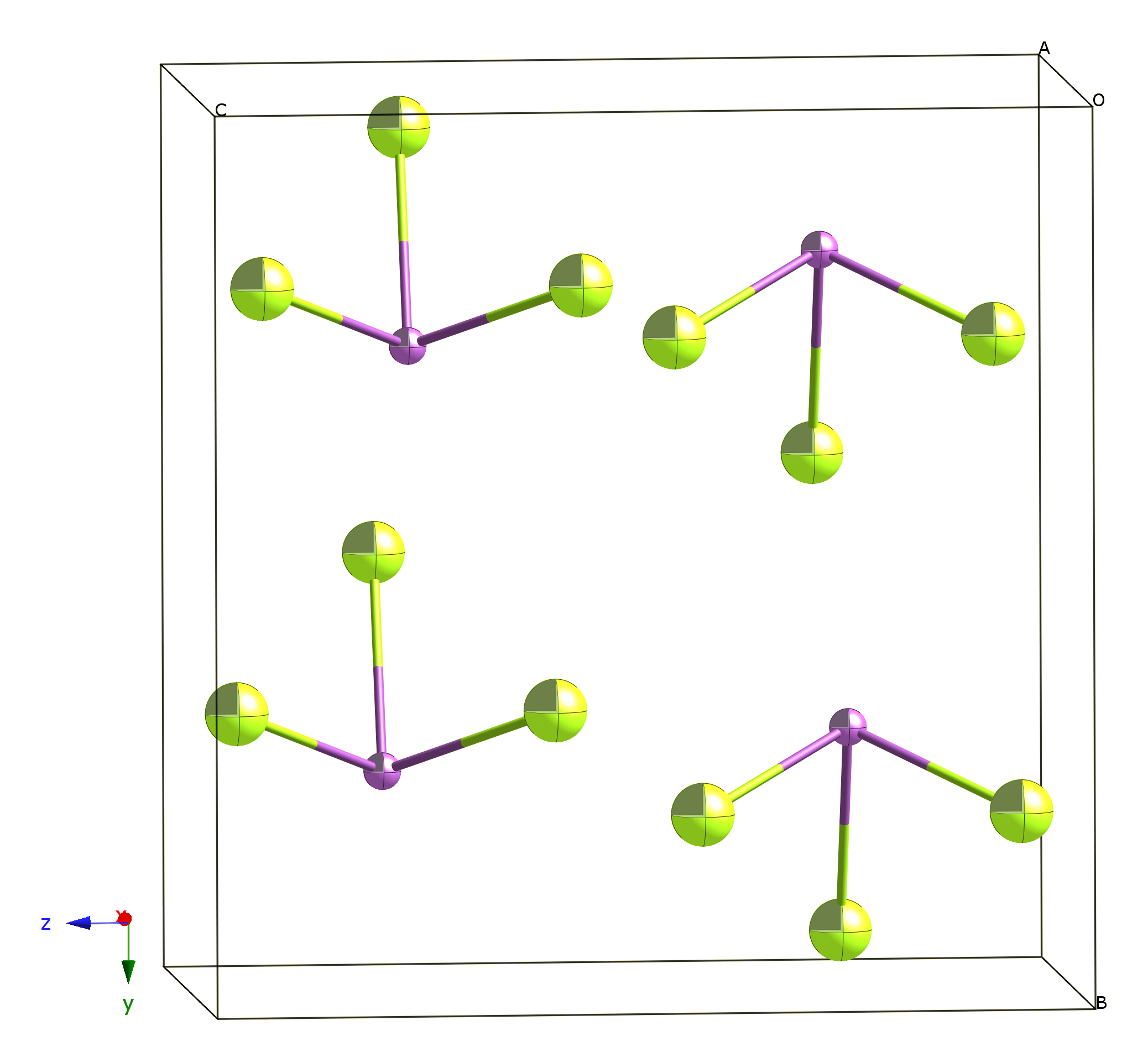 Thermal ellipsoid model of the unit cell of antimony trifluoride, SbF3. The thermal ellipsoids are drawn at the 50% probability level. Crystal structure from J. Chem. Soc. A (1970) 2751-2753. Model constructed and image generated in CrystalMaker 8.1.